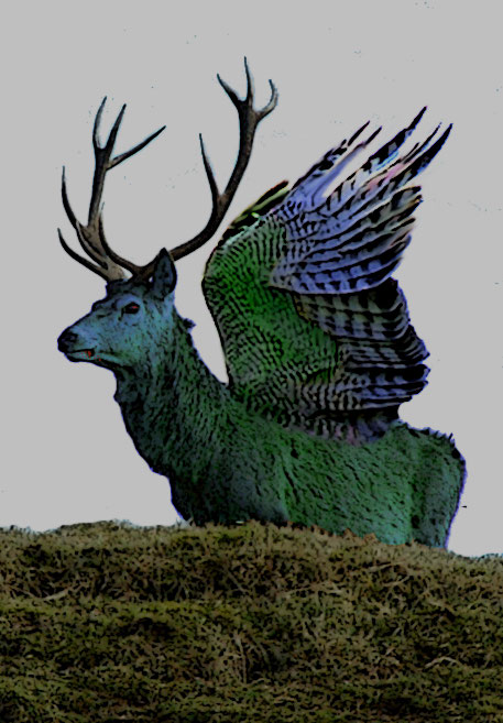 (Copulating) Red-shouldered Hawks (Buteo lineatus extimus -- Family: Accipitridae). Along Turner River Rd. in the Big Cypress National Preserve, Collier Co., Florida 01/31/2007 ==